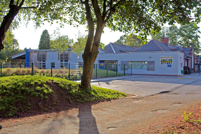 New building at Chorlton Park Primary School The white building is a recent addition to the school. The red brick buildings behind are or were the infants school. The school also occupies other buildings to the right of the photo.